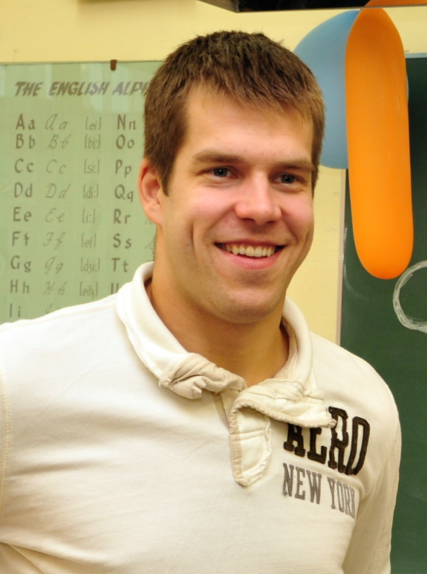 Latvian ice hockey player Jānis Sprukts in 2010.